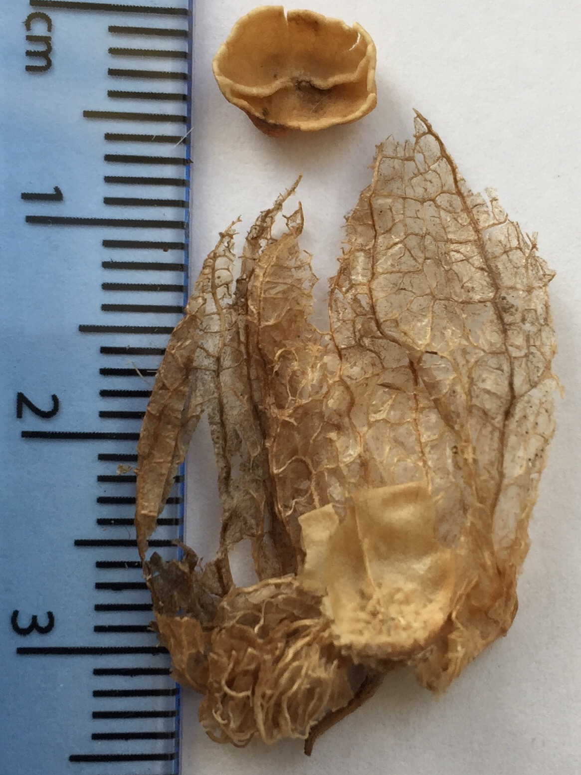 Bladder-like fruiting calyx (bisected to show remains of empty pyxidium after dehiscence by operculum (separate operculum also shown in photo)) of Physochlaina physaloides. Gathered in the Altai Mountains near the Mongolian city of Khovd in 1989.